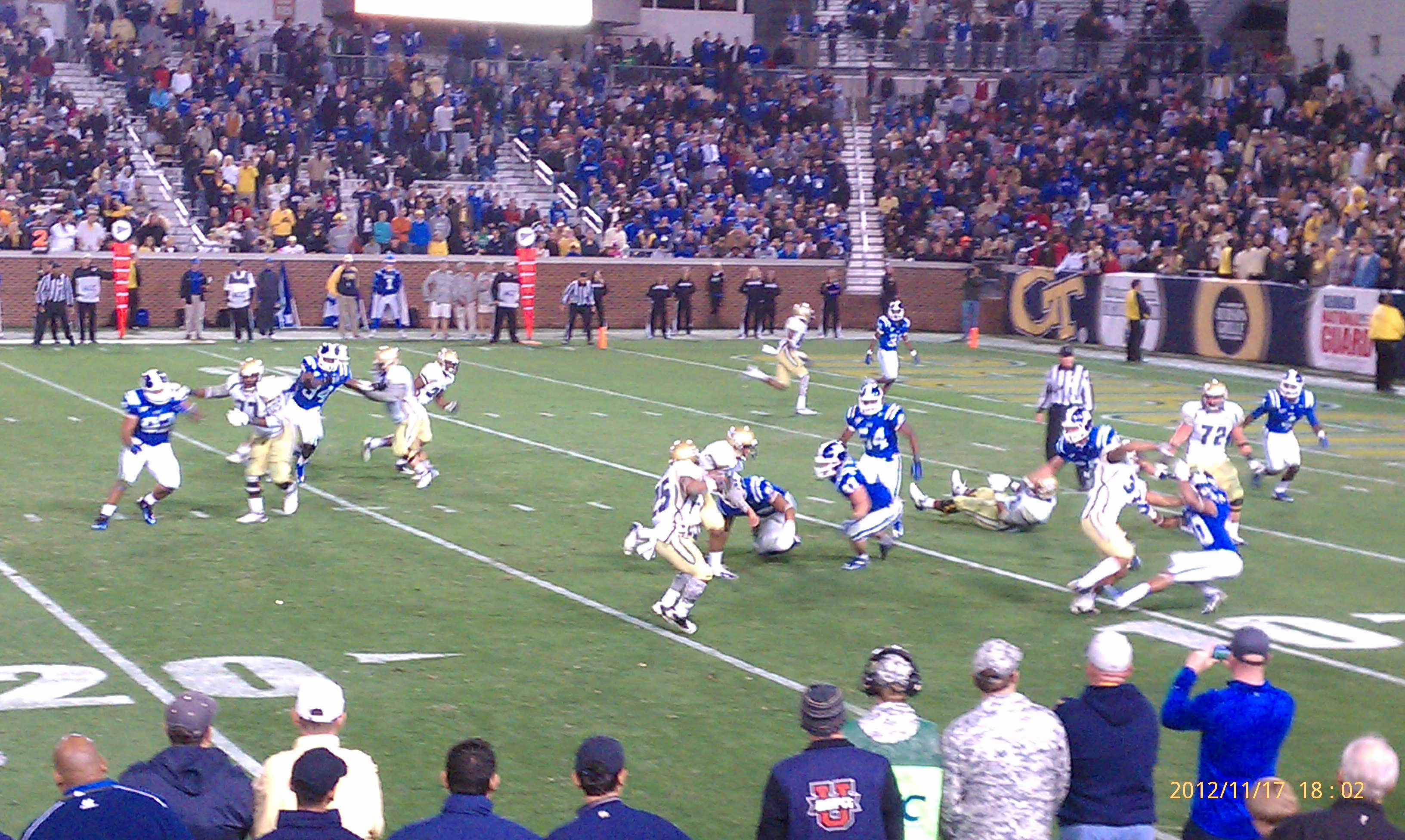 Georgia Tech Yellow Jackets football team playing against Duke on 11/17/12